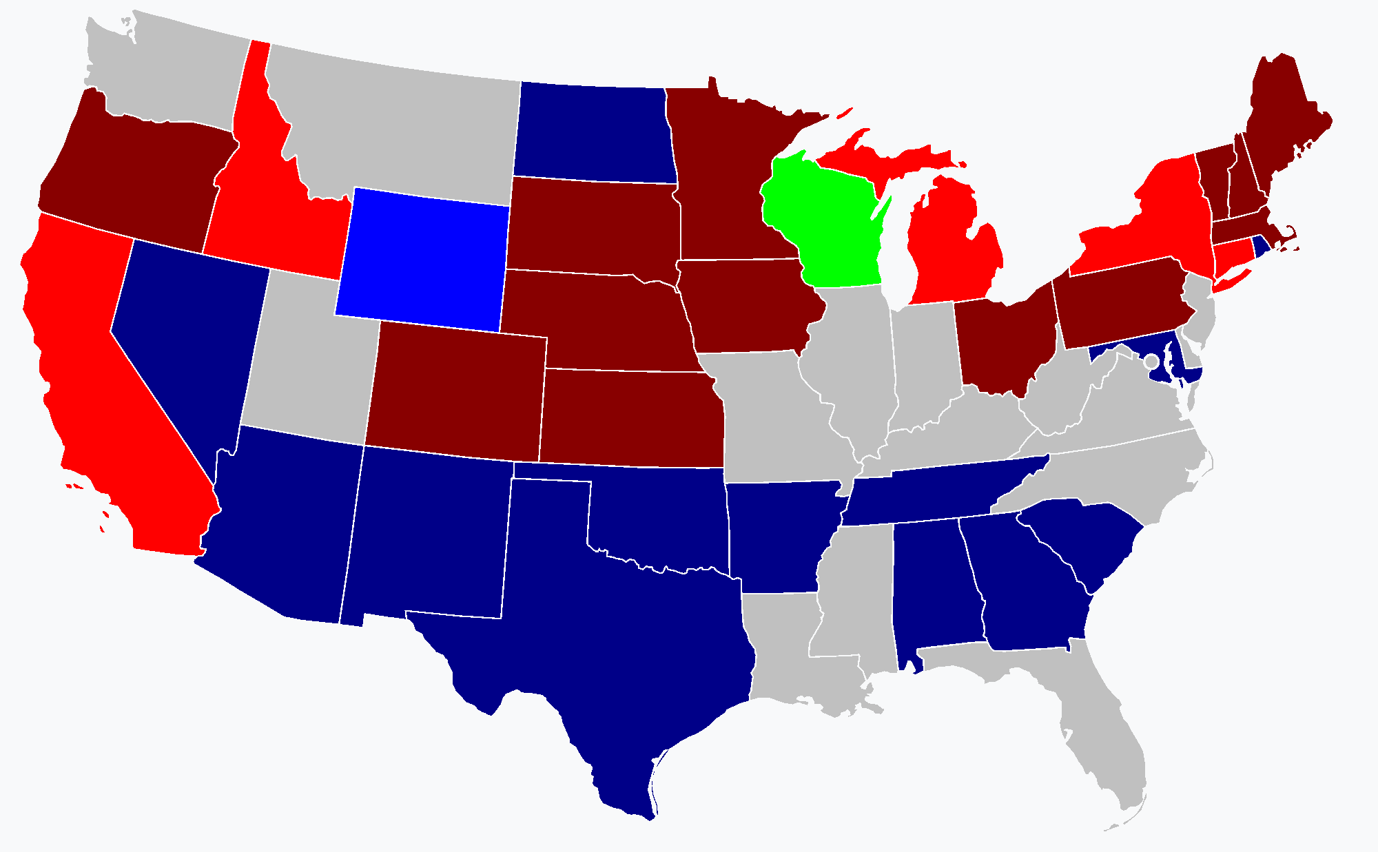 A map showing the results of the 1942 United States Gubernatorial elections